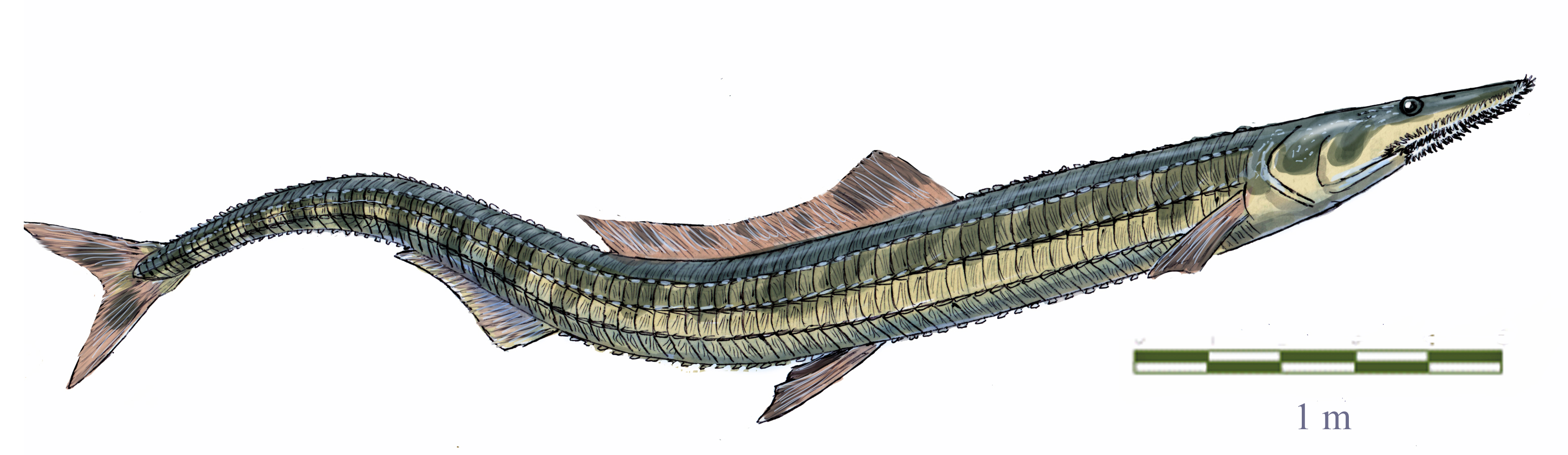 Reconstruction of Stratodus, Alepisauriform fish from Late Cretaceous of North America and North Africa